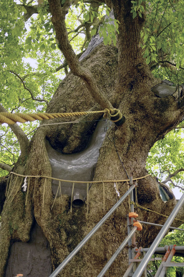 Camphor Tree. Sanno Shinto Shrine, Nagasaki.